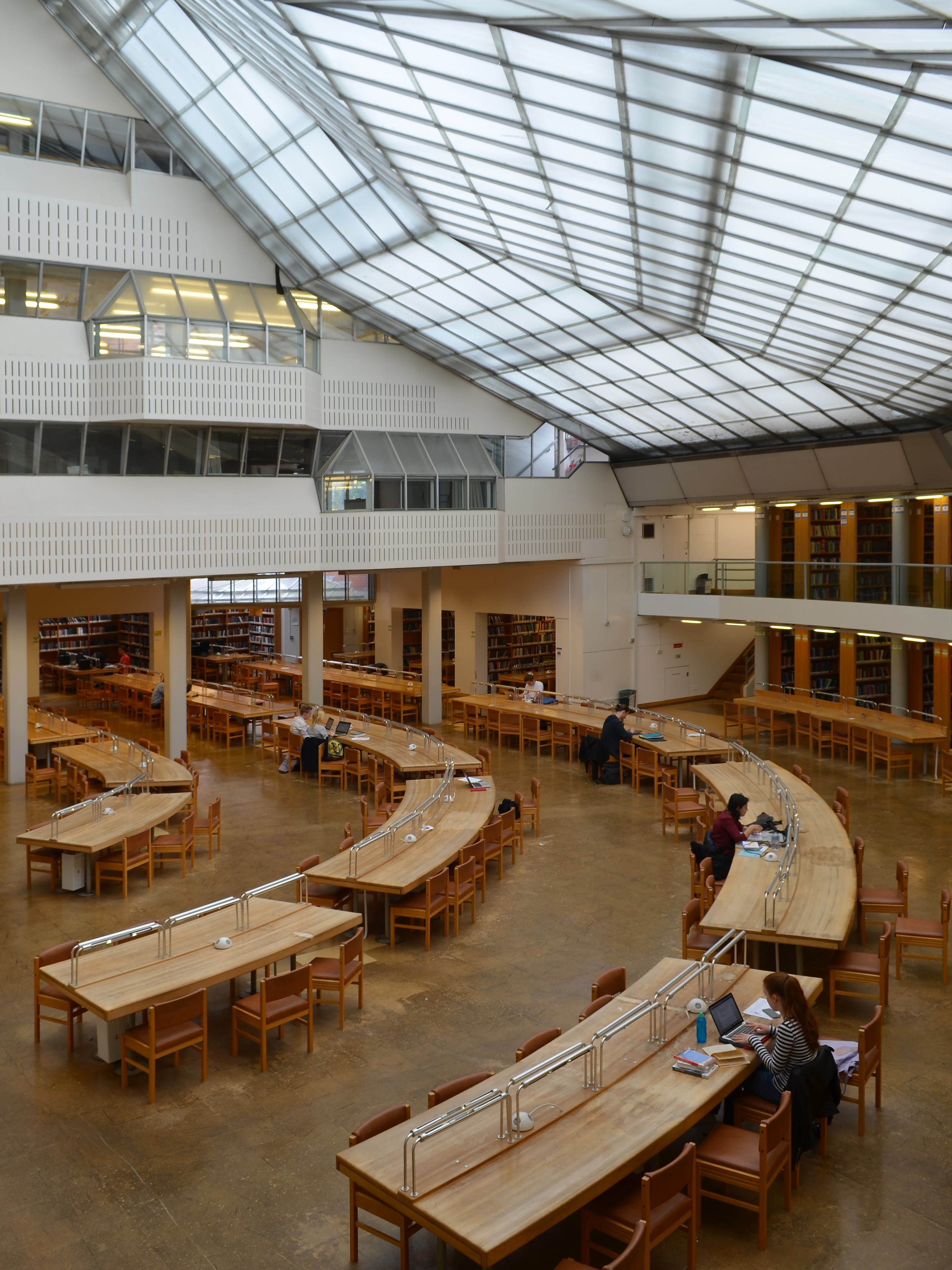 Interior of Seeley Historical Library, Cambridge in October, 2017.